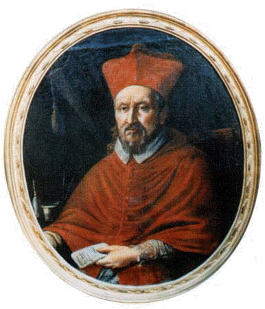 Domenico Cardinal Ginnasi